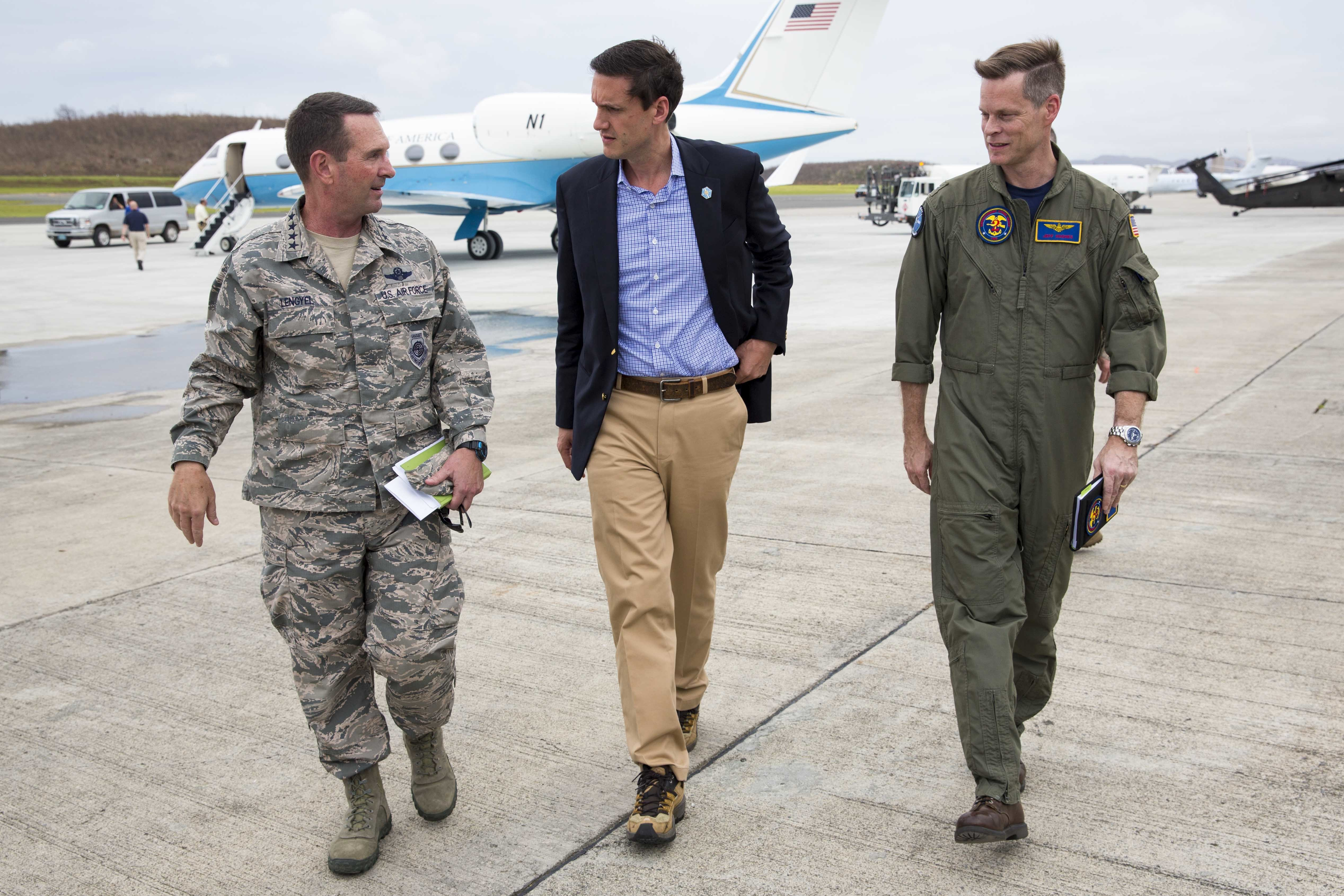 170925-N-KW492-163 ST. CROIX, U.S. Virgin Islands (Sept. 25, 2017) Rear Adm. Jeff Hughes (right), Commander, Expeditionary Strike Group 2, embarked aboard amphibious assault ship USS Kearsarge (LHD 3), speaks with Tom Bossert (center), Homeland Security Advisor, and Air Force Gen. Joseph Lengyel, Chief of the National Guard Bureau. Kearsarge is assisting with relief efforts in the aftermath of Hurricane Maria. The Department of Defense is supporting FEMA, the lead federal agency, in helping those affected by Hurricane Maria to minimize suffering and is one component of the overall whole-of-government response effort. (U.S. Navy photo by Mass Communication Specialist 3rd Class Ryre Arciaga/Released)